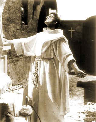 Courtenay Foote in Hypocrites (1915) - publicity still